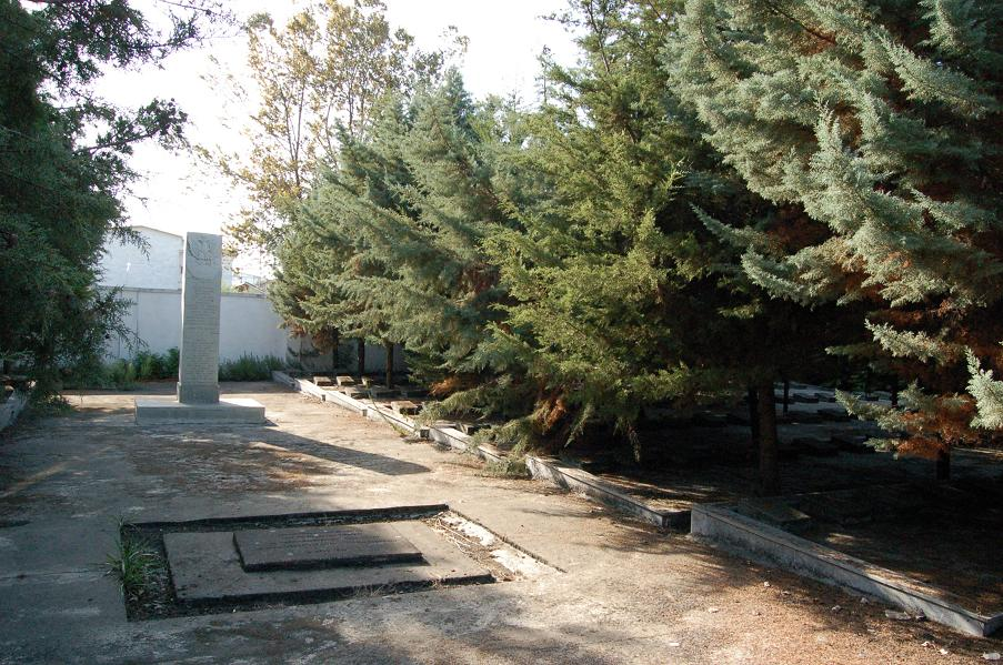 Polish Cementery in Bandar-e Anzali